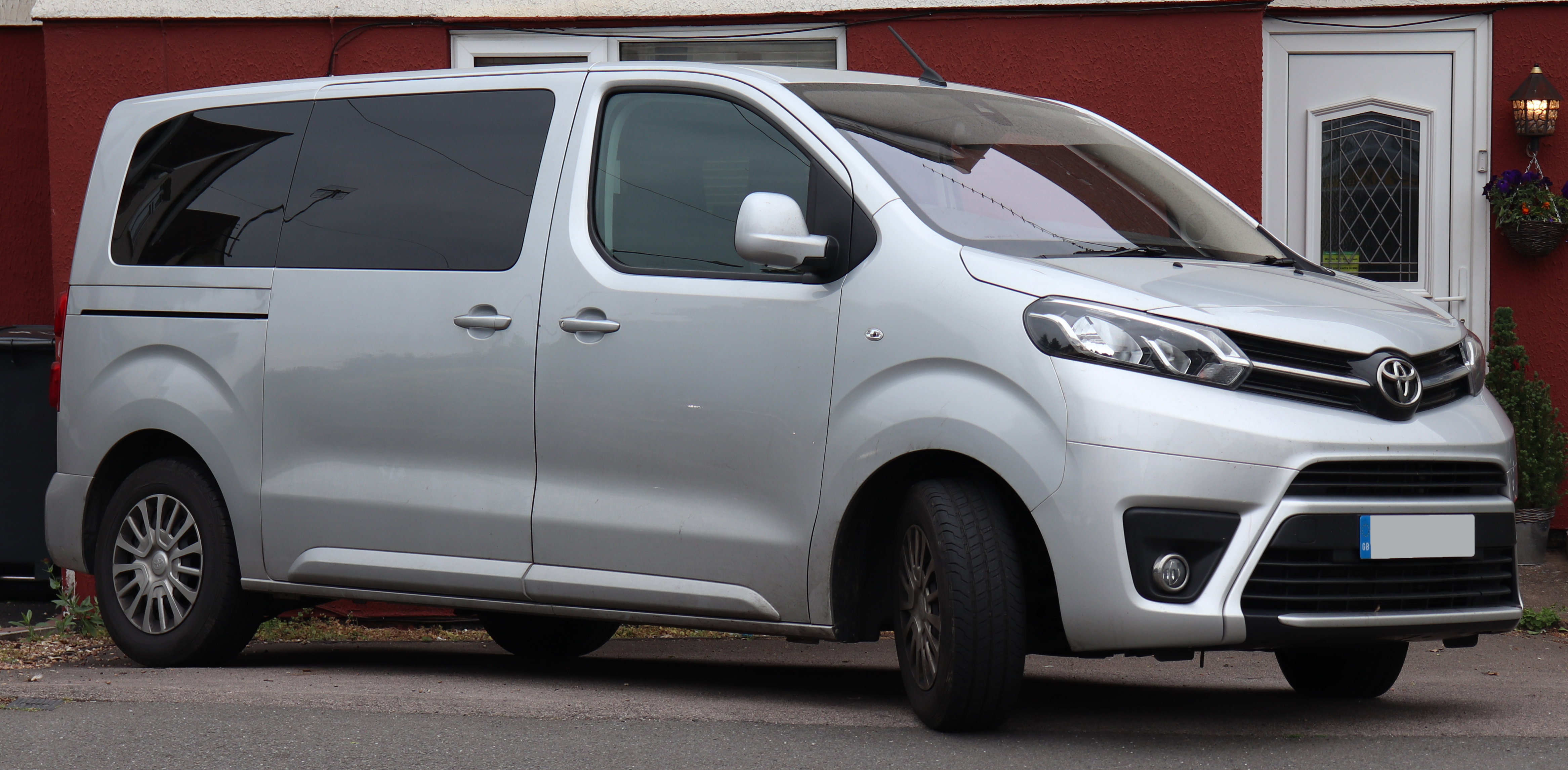 2017 Toyota ProAce Verso Shuttle Li Diesel 2.0 Taken in Warwick